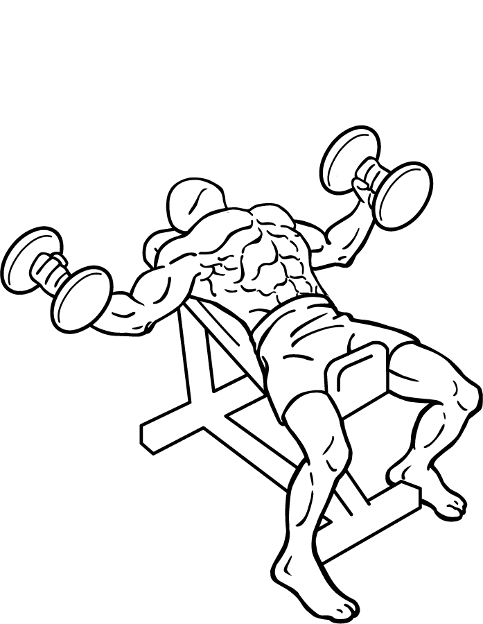 an exercise of chest